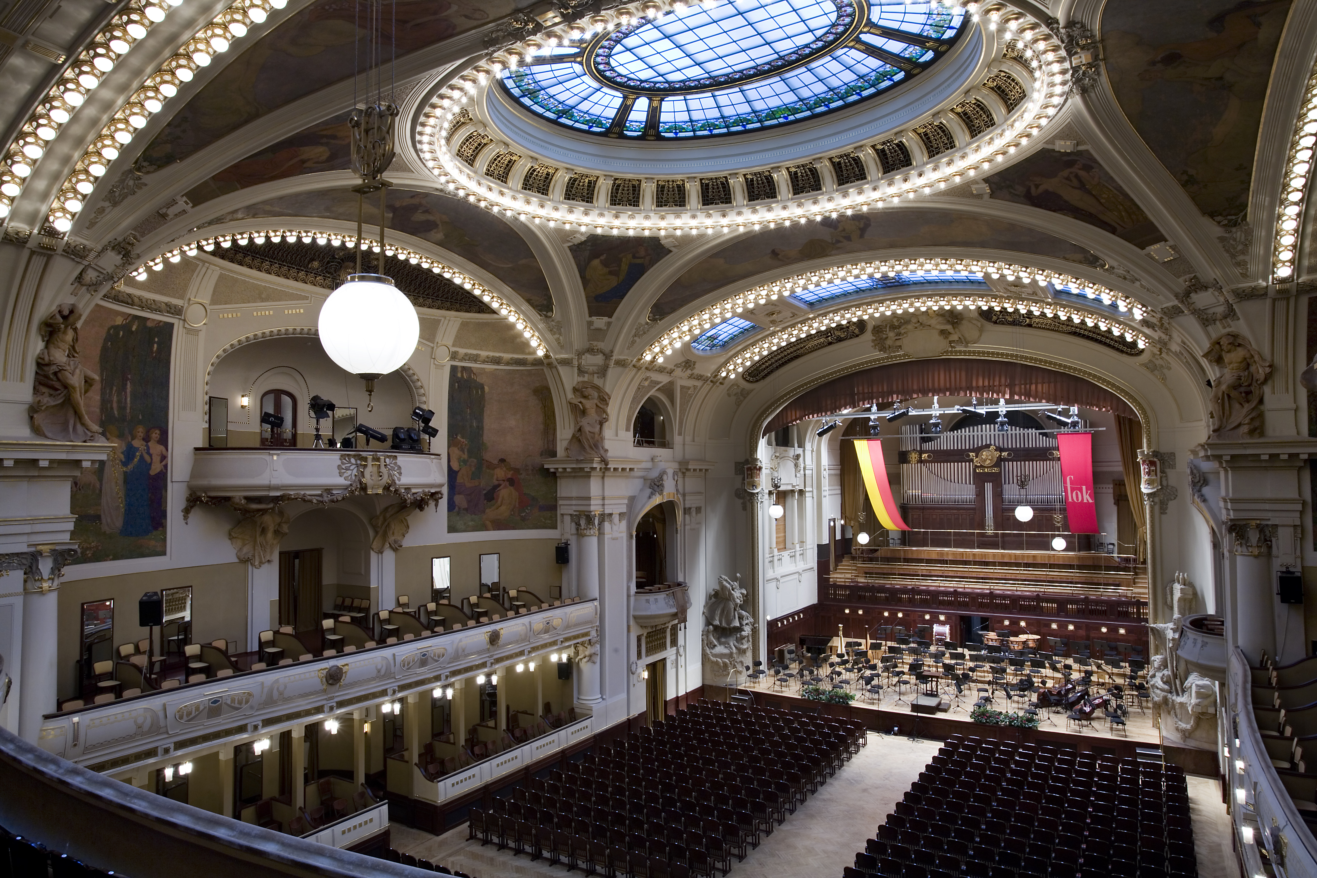 Smetana Hall at the Municipal House (Obecní Dum), Prague